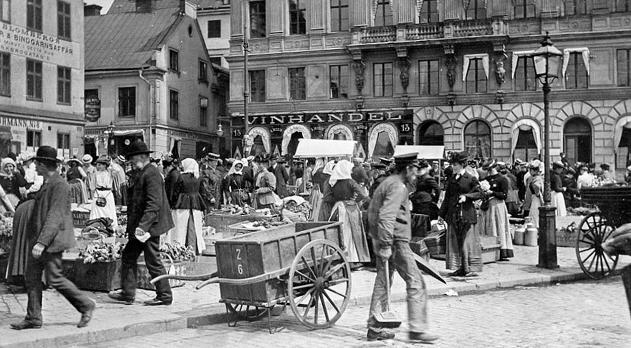 FOTOGRAFI: Torghandel vid Mälartorget. 1908-1908FOTOGRAF: Okänd.BILDNUMMER:Stadsmuseet i Stockholm